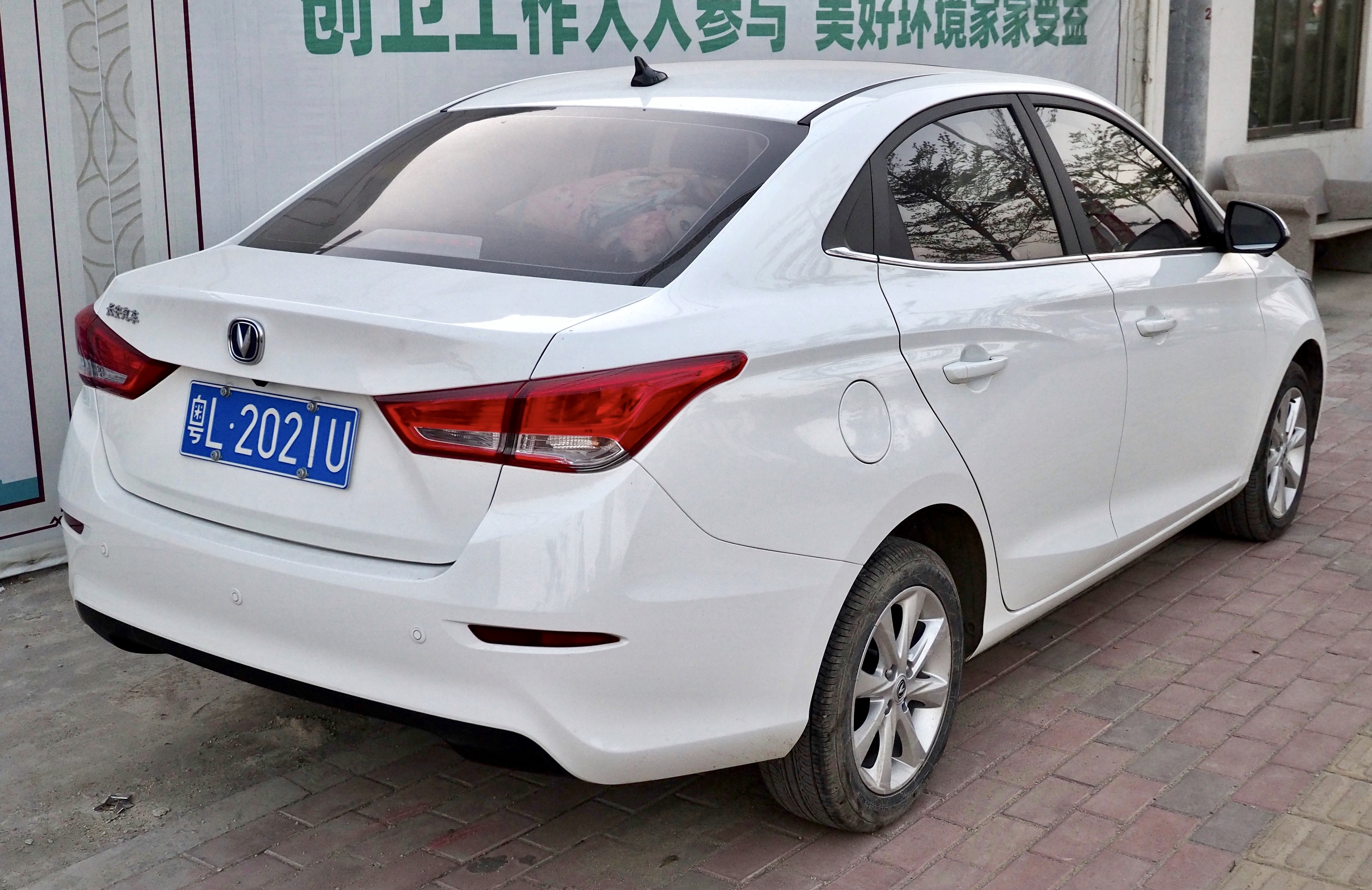 A 2018 Chang'an Alsvin photographed in Shanwei, Guangdong province, China. 中文（中国大陆）: 一辆2018年的长安悅翔，拍摄于中国广东省汕尾市。